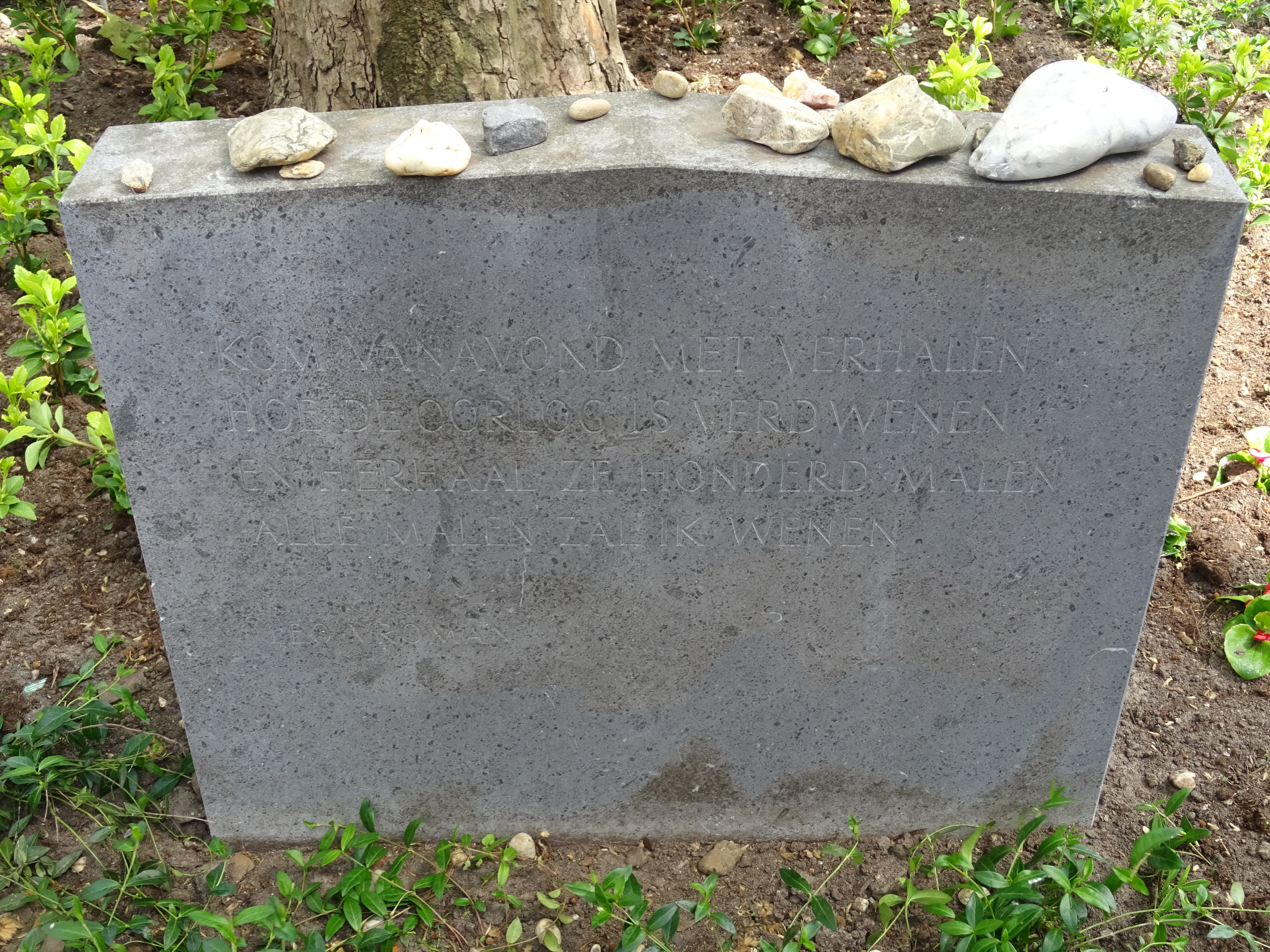 De steen met de inscriptie van Leo Vroman, gelegen achter het Joods monument op 6 mei 2019